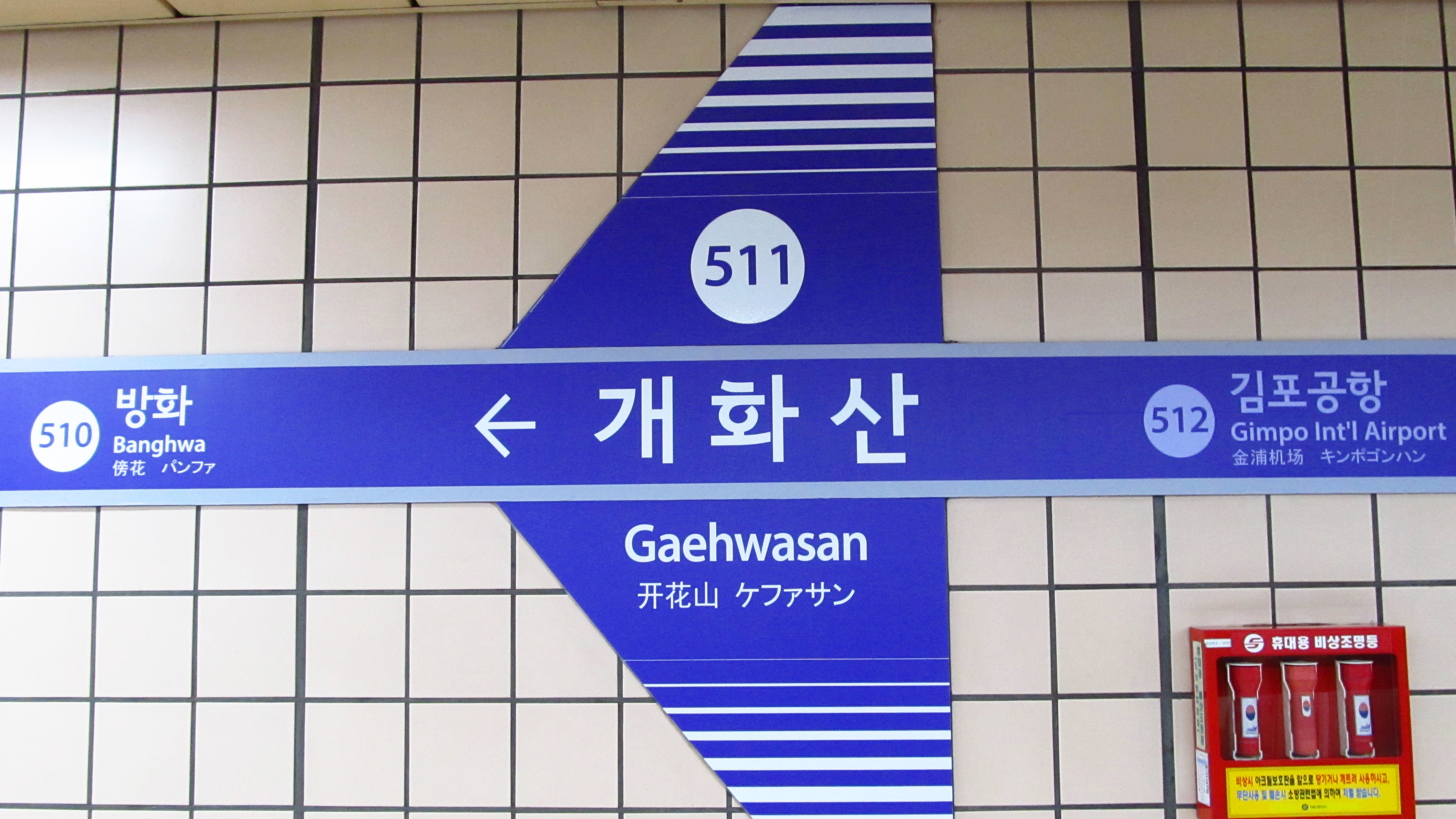 A sign of Gaehwasan Station on Seoul Subway Line 5